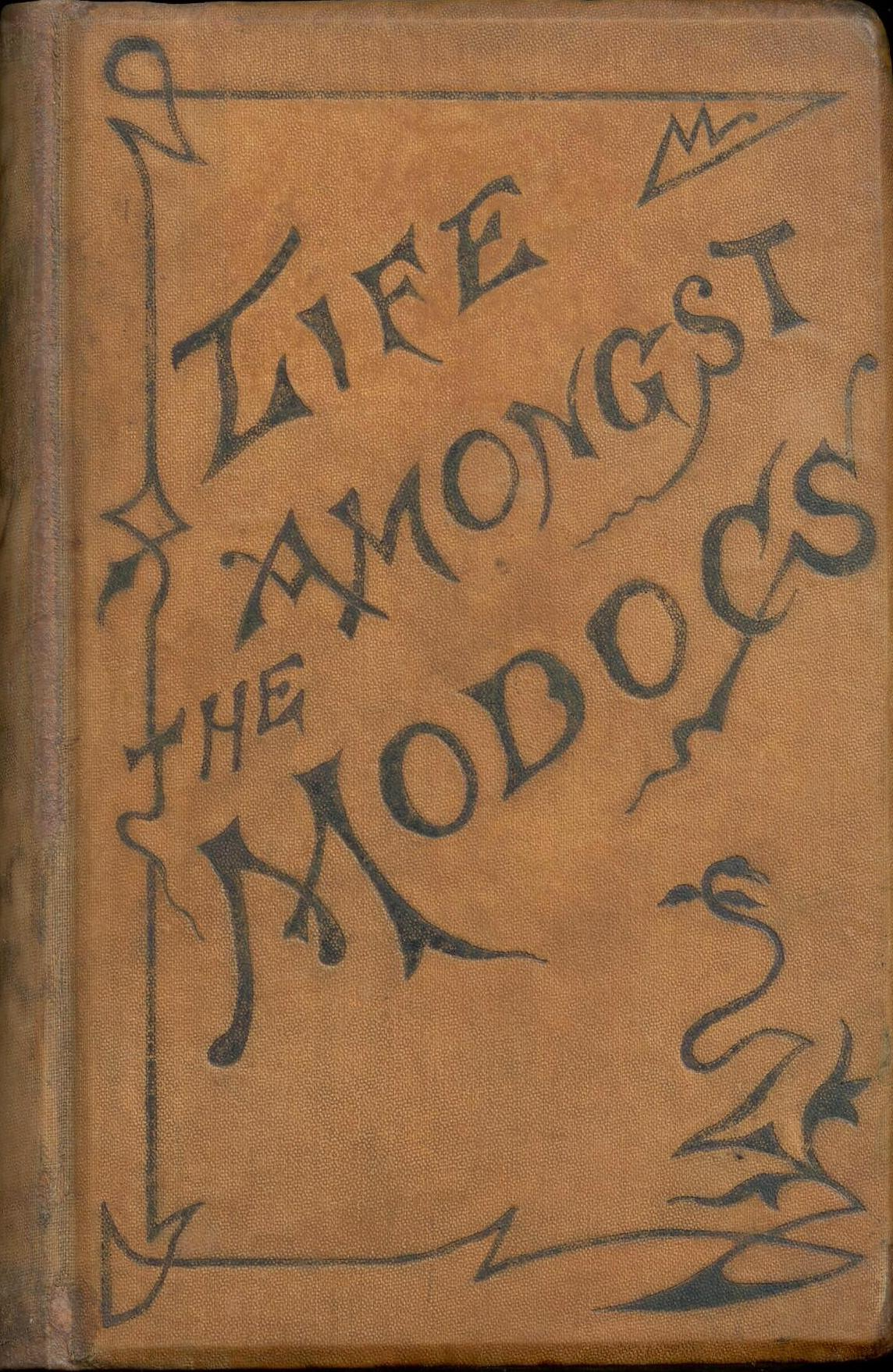 MILLER, Joaquin [Cincinnatus Hiner] (1837-1913). Life amongst the Modocs: Unwritten History. London: Richard Bentley & Son, 1873